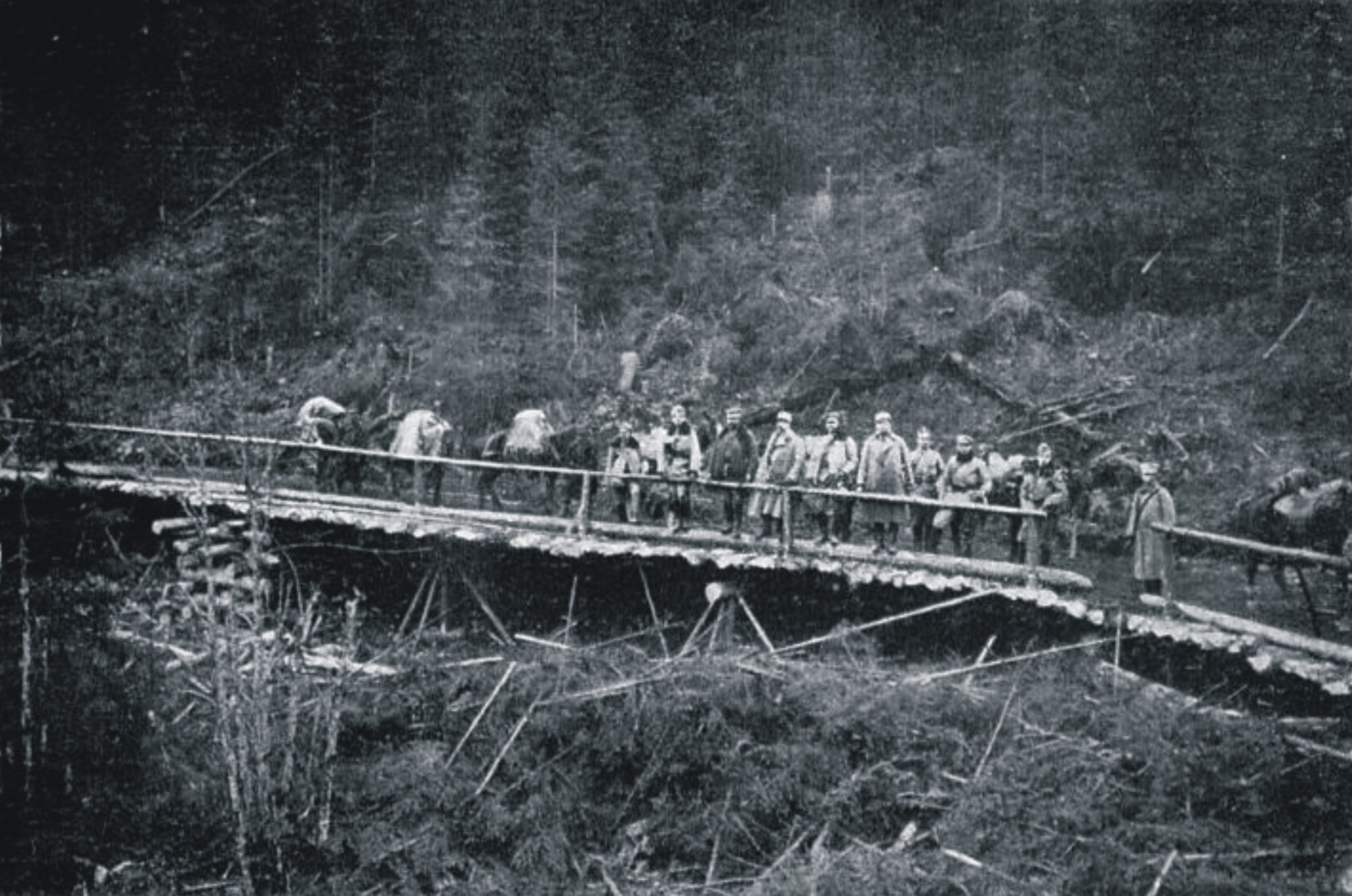 One of the longest bridges in Legions Way in Gorgany mountains (50m)